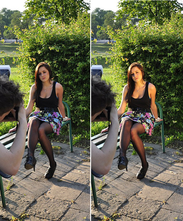 Picture without and with reflector.